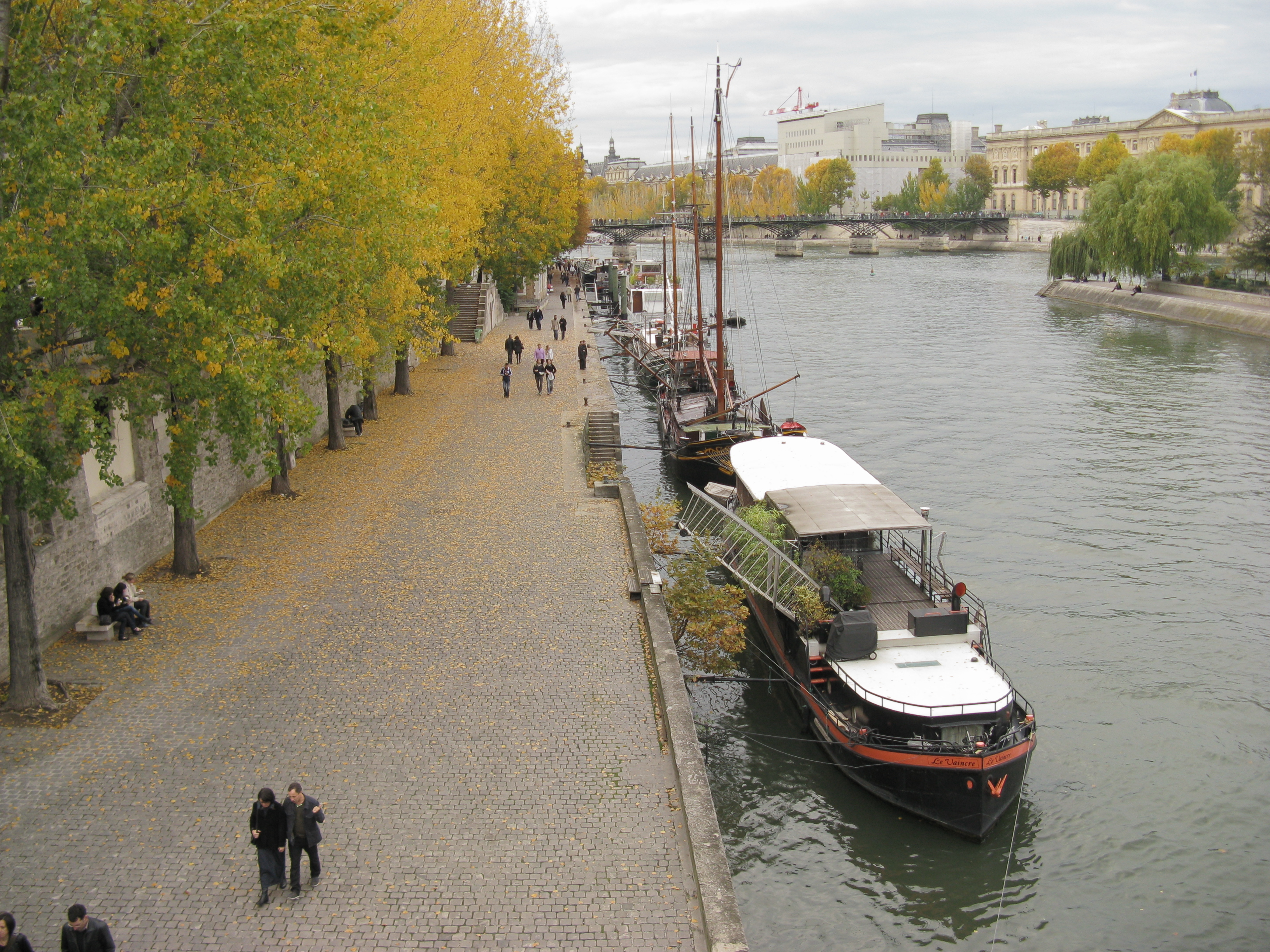 Seine river in Paris, France.